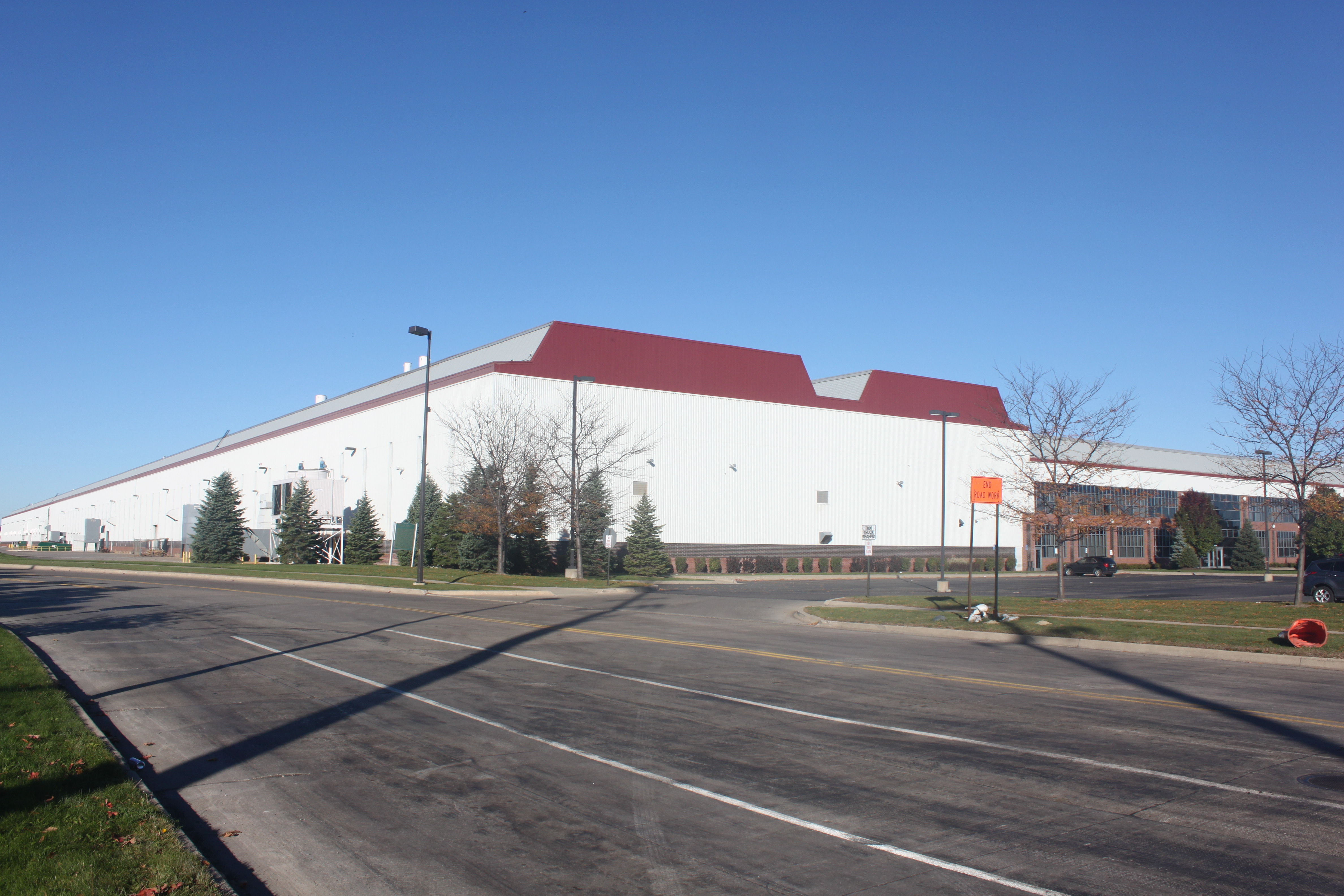 Warren, Michigan, Detroit Arsenal Tank Plant